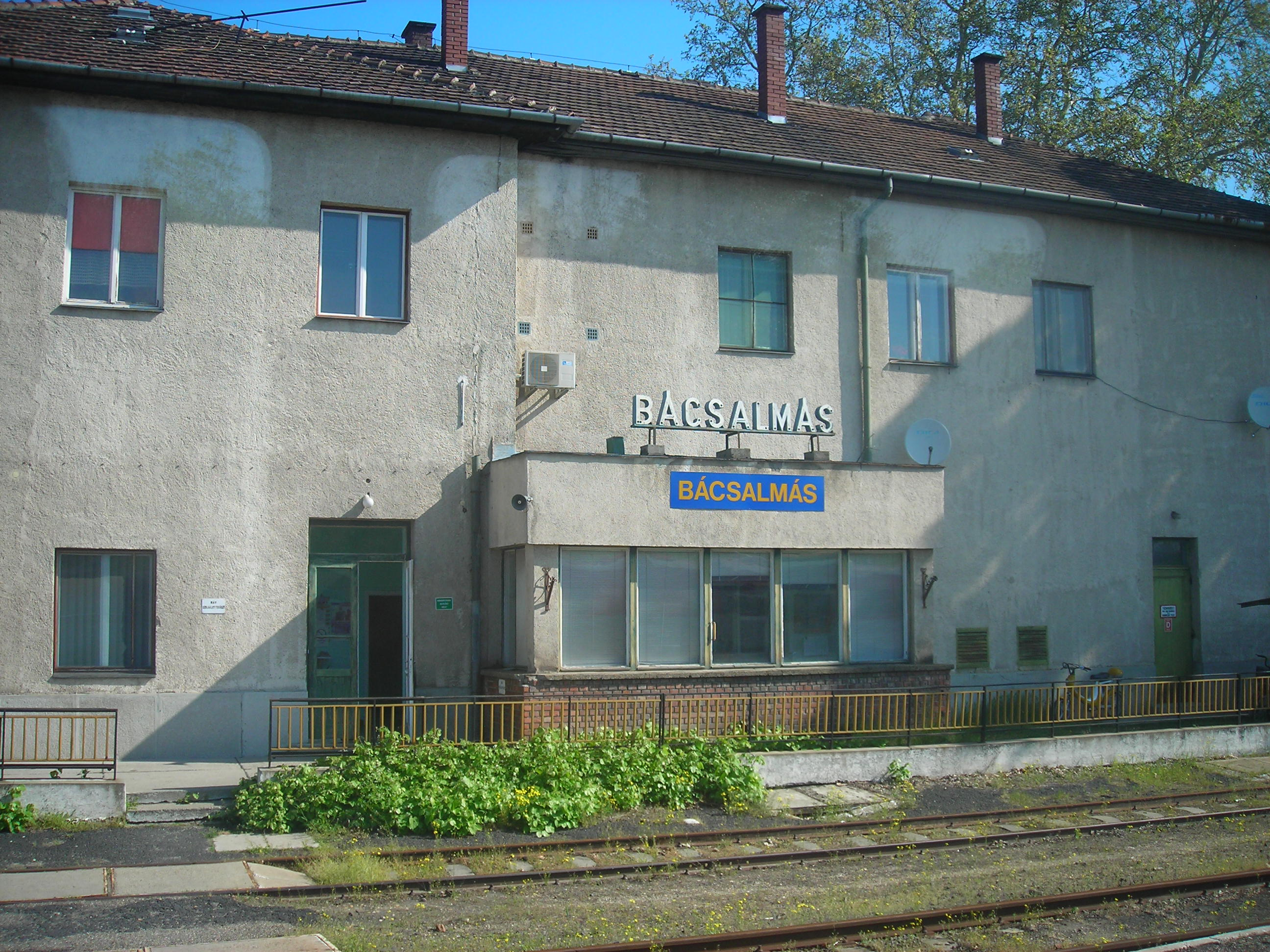 Bácsalmás railway station